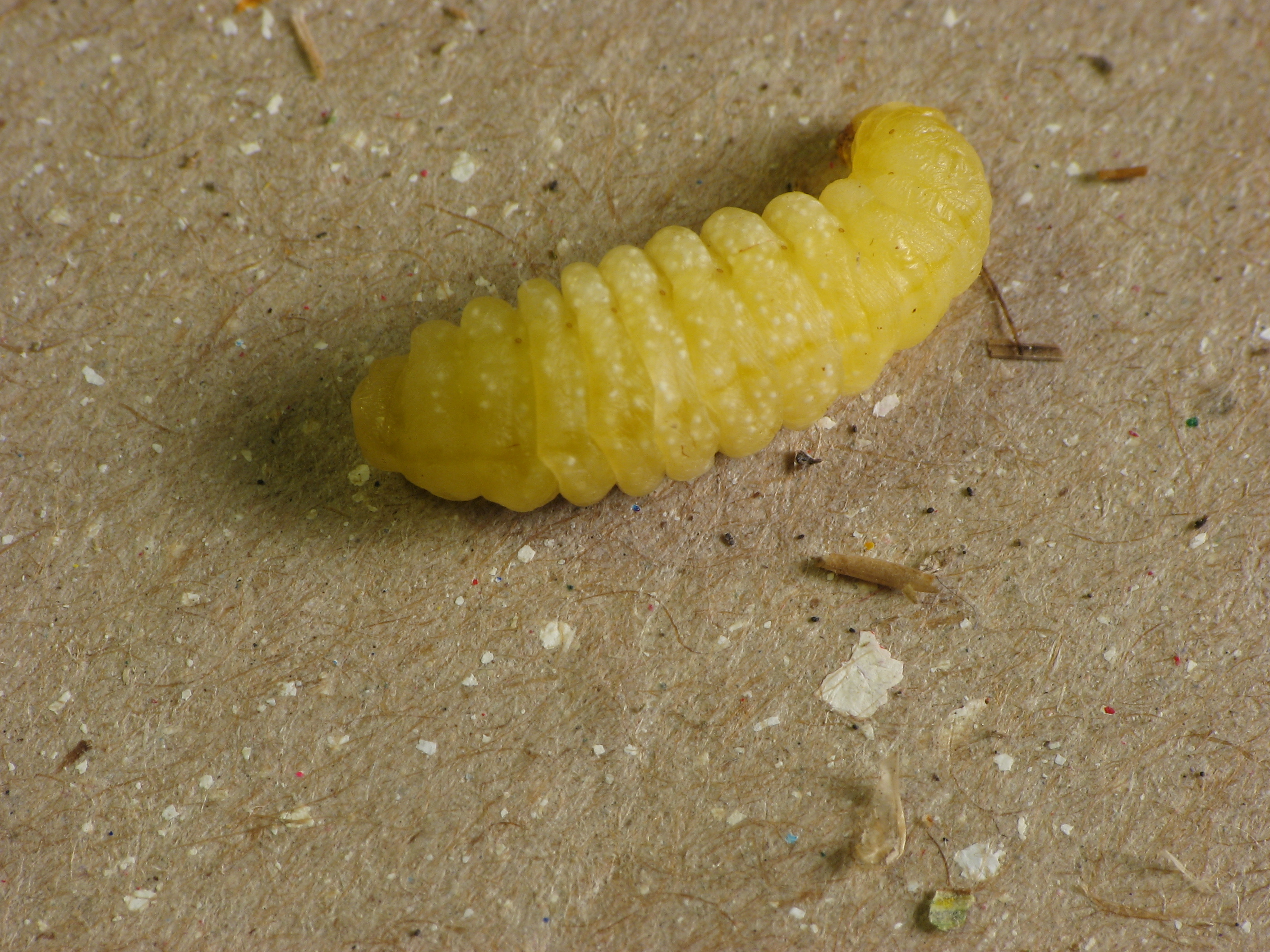 Larva of grass-carrying wasp, Isodontia, from twig nest with katydid prey. Willow Grove, Montgomery County, Pennsylvania, USA.